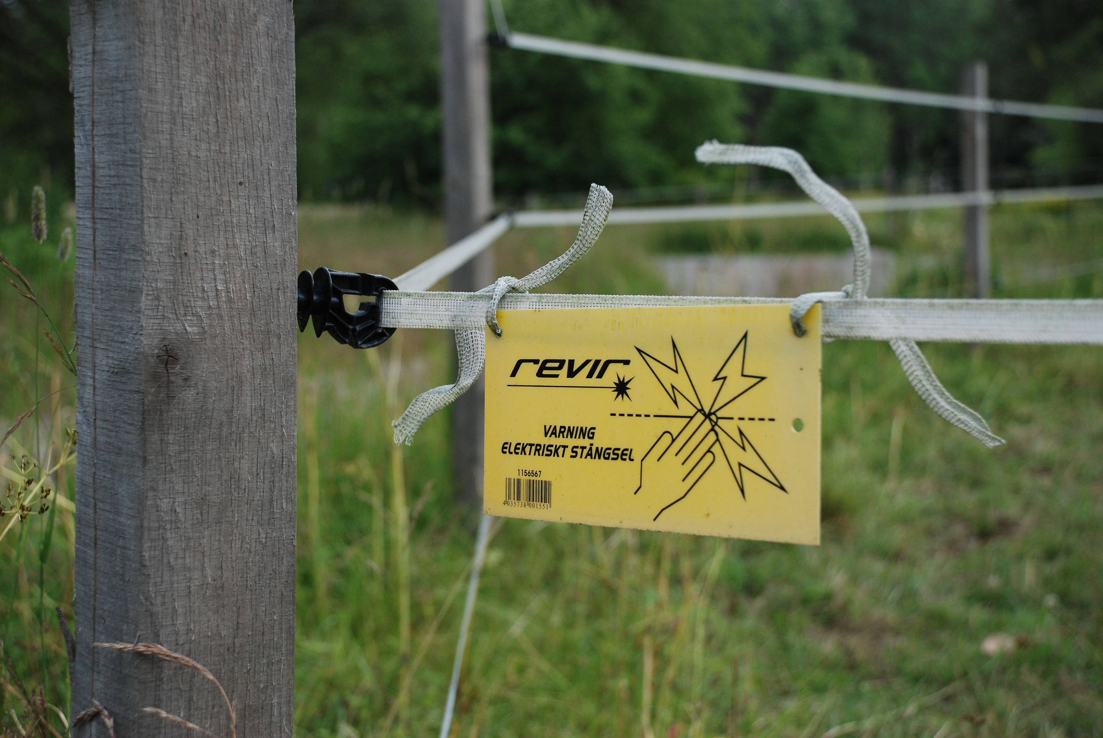 Electric fence for horses